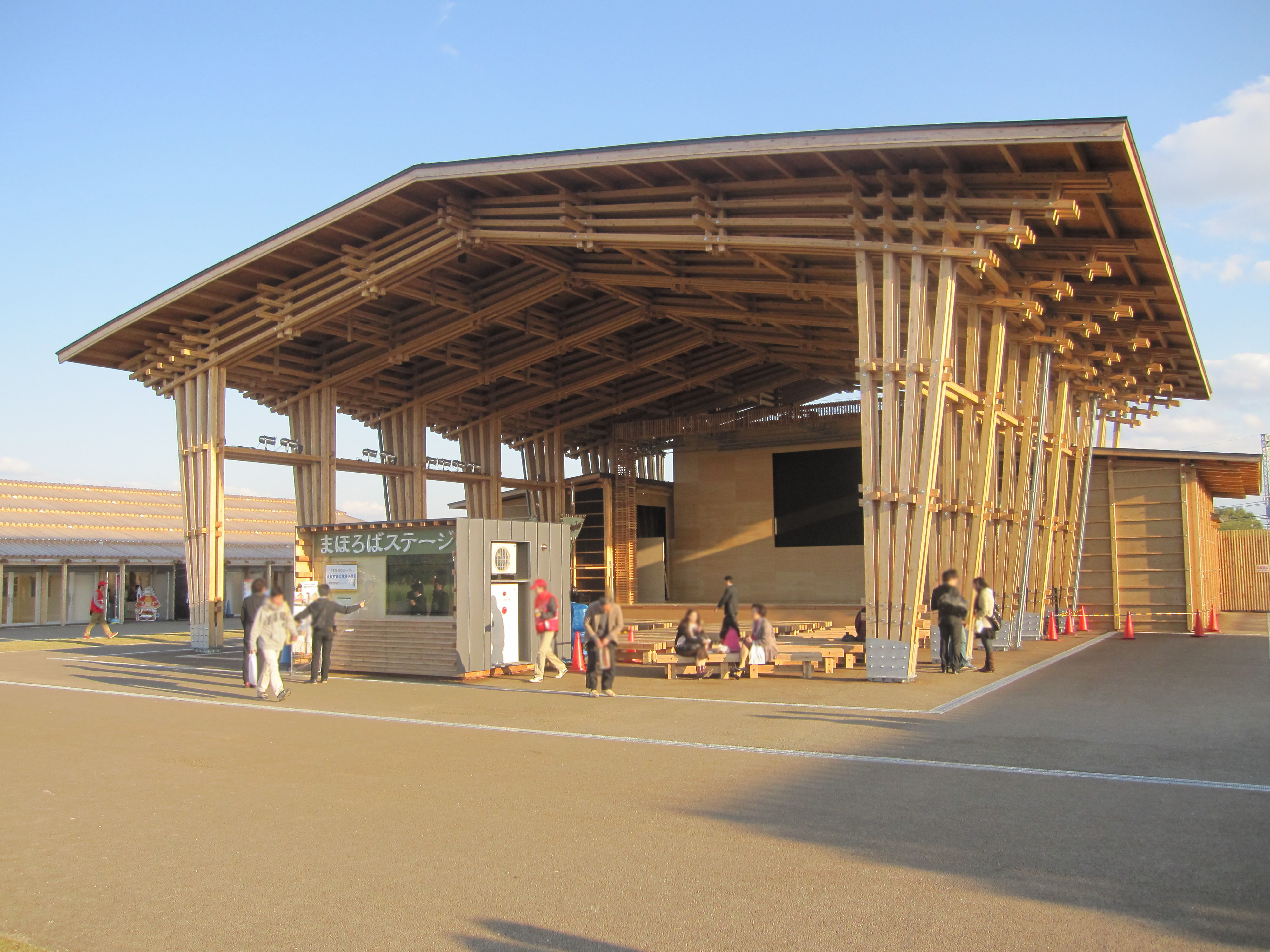 Mahoroba Stage in Exchange Plaza